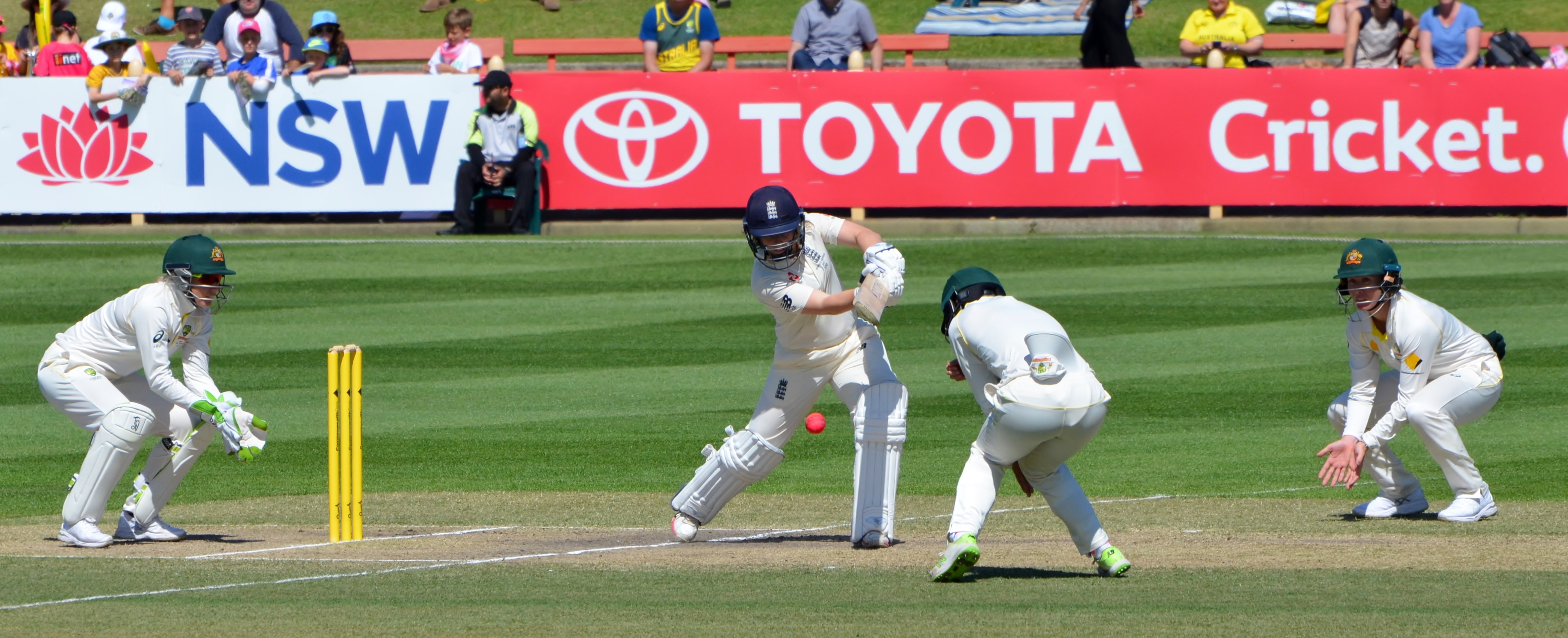 Tammy Beaumont on her way to 37 on the final day of the 2017–18 Women's Ashes Test at North Sydney Oval. The fielders are (L-R) Alyssa Healy, Elyse Villani and Beth Mooney.